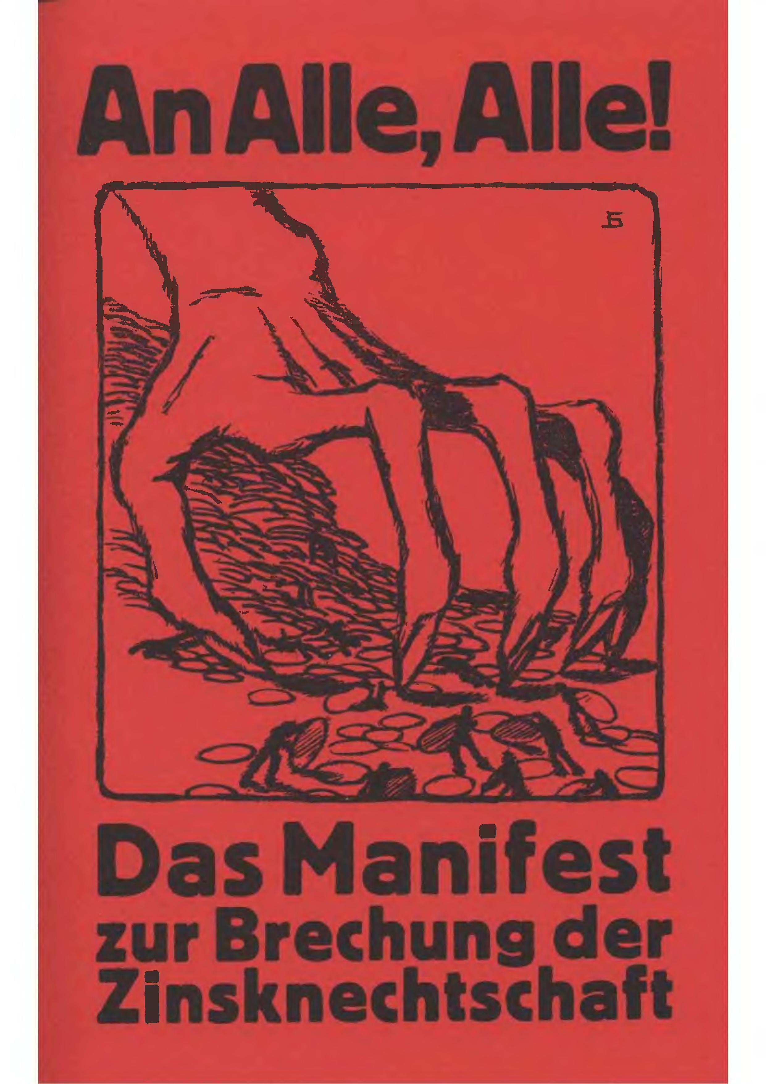 To All! To All! The Manifesto for the Dissolution of Wage Slavery